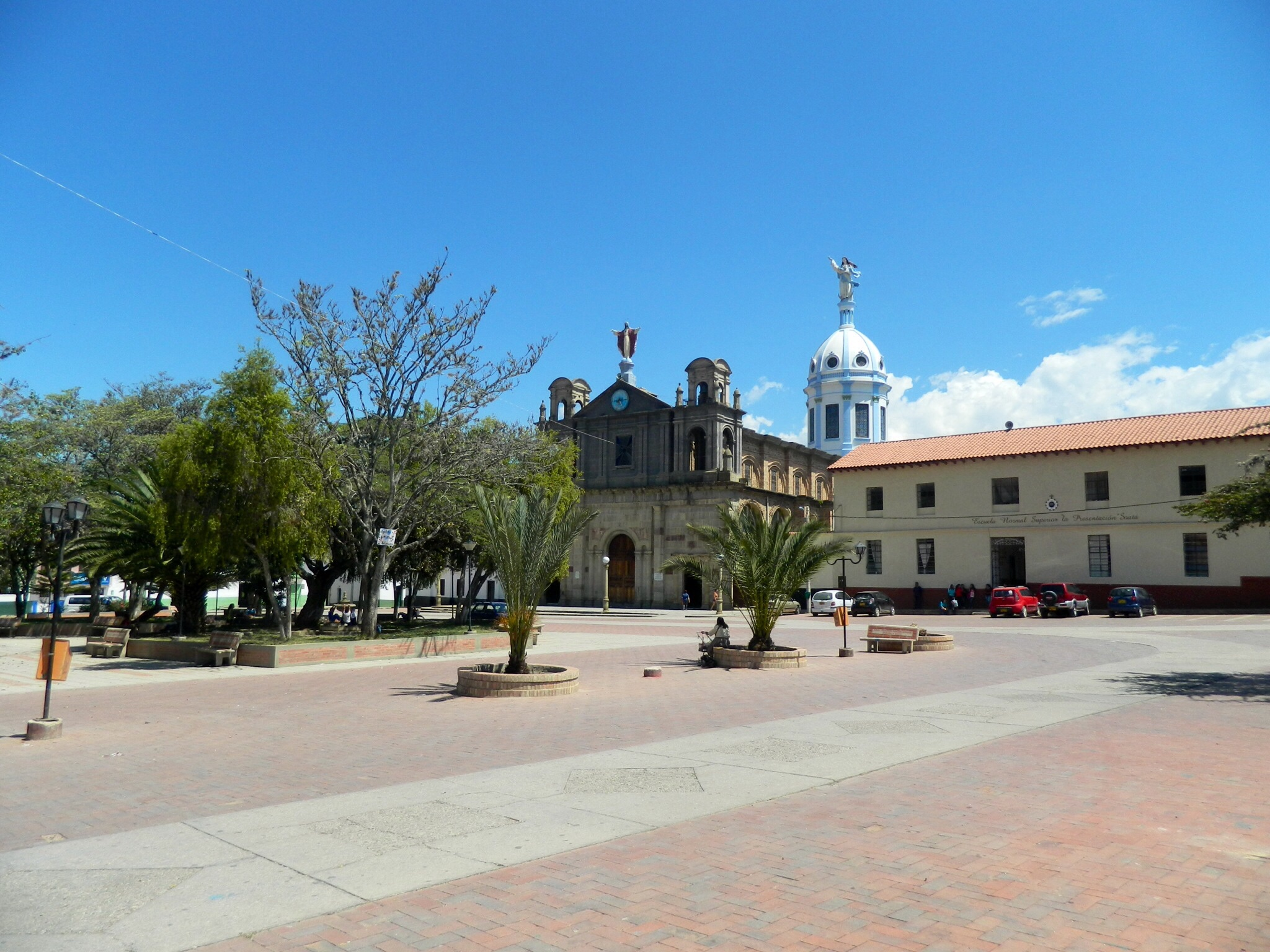 Parque principal Simón Bolivar